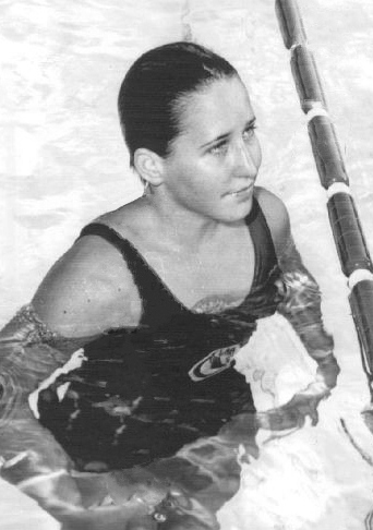 1962 Womens National Swim Meet Carolyn House and Sharon Finneran Press Photo